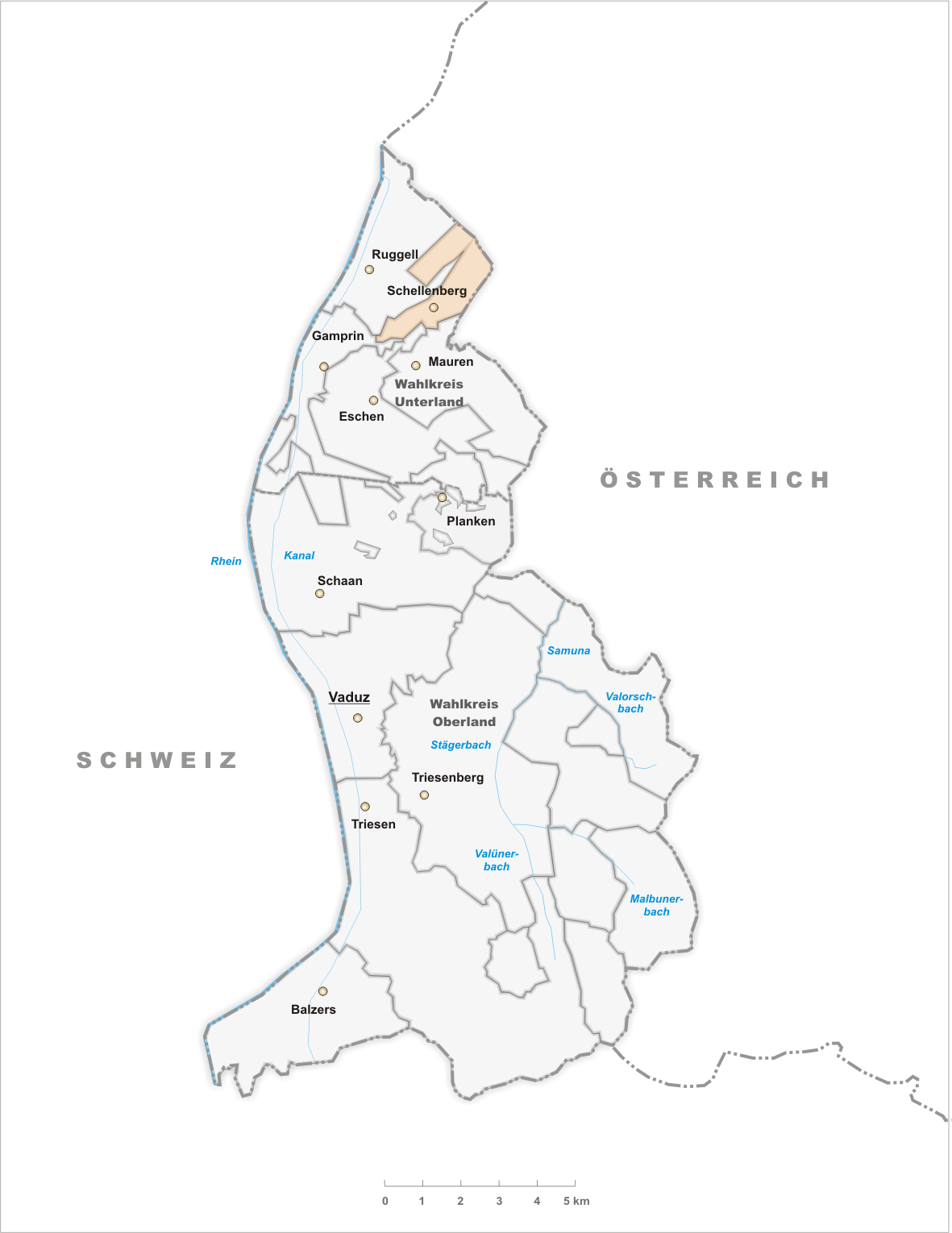 Municipality Schellenberg